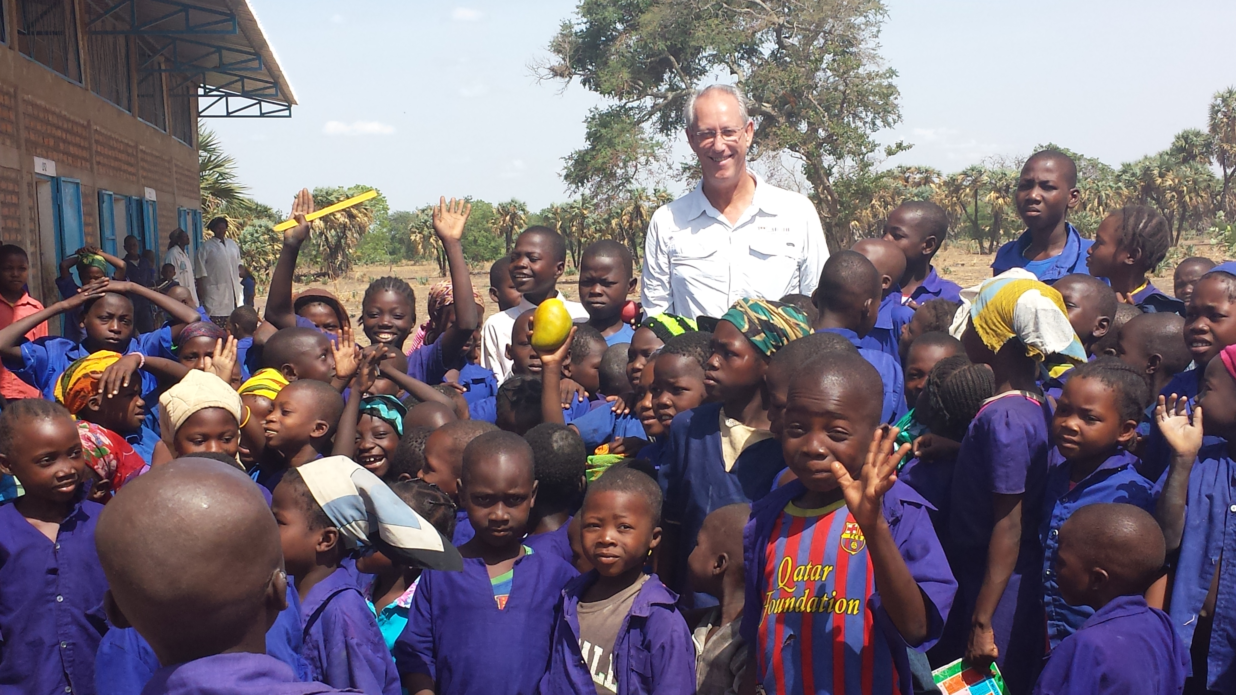 Kids at Bero School On a visit to see how we can support this Catholic Mission School.